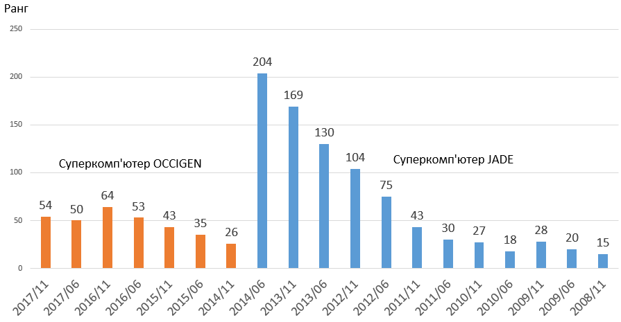 CINES rank